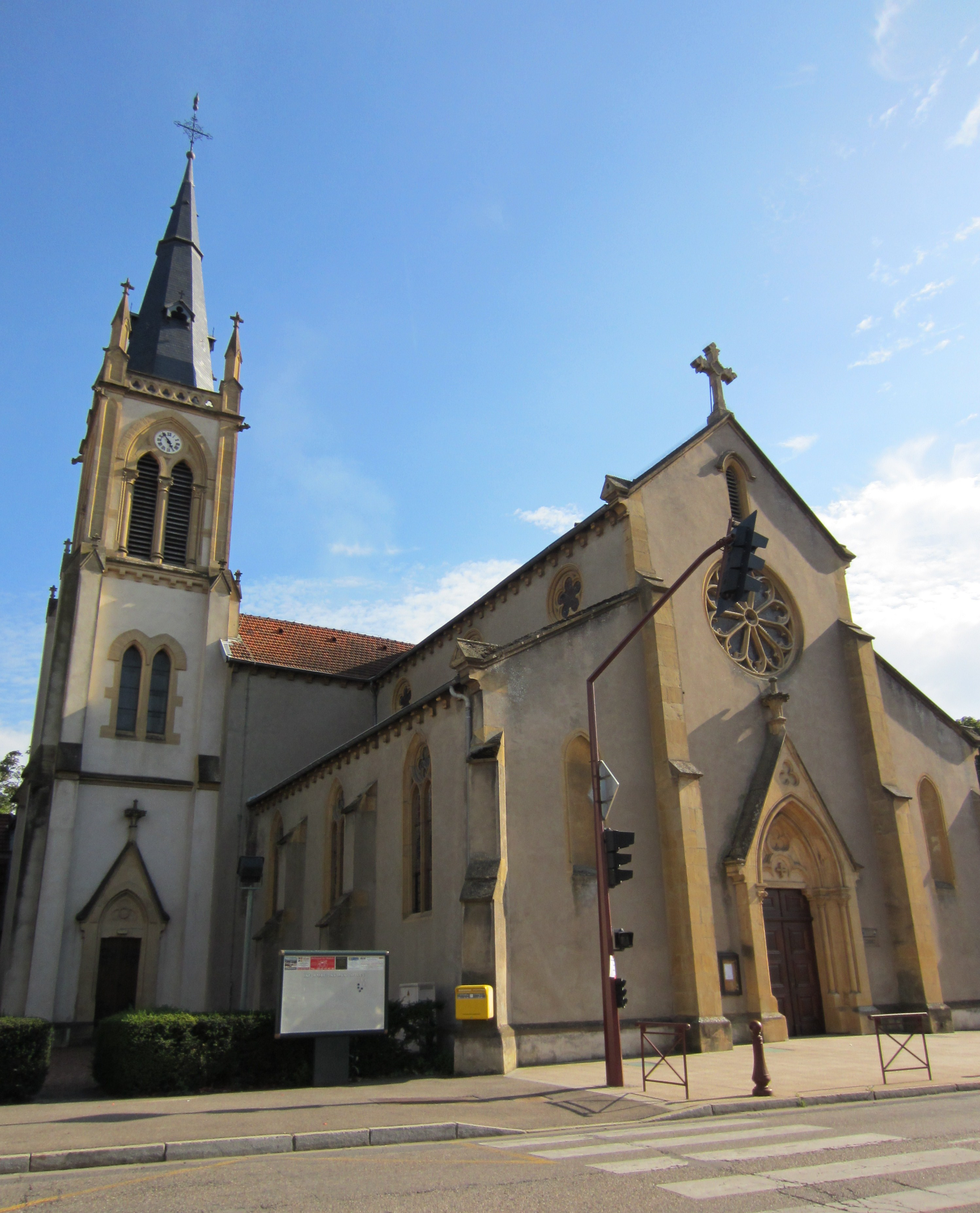 Description eglise Longeville Metz Date2 September 2011Sourcemon appareil photoAuthorAimelaimePermission (Reusing this file) eglise Longeville Metz